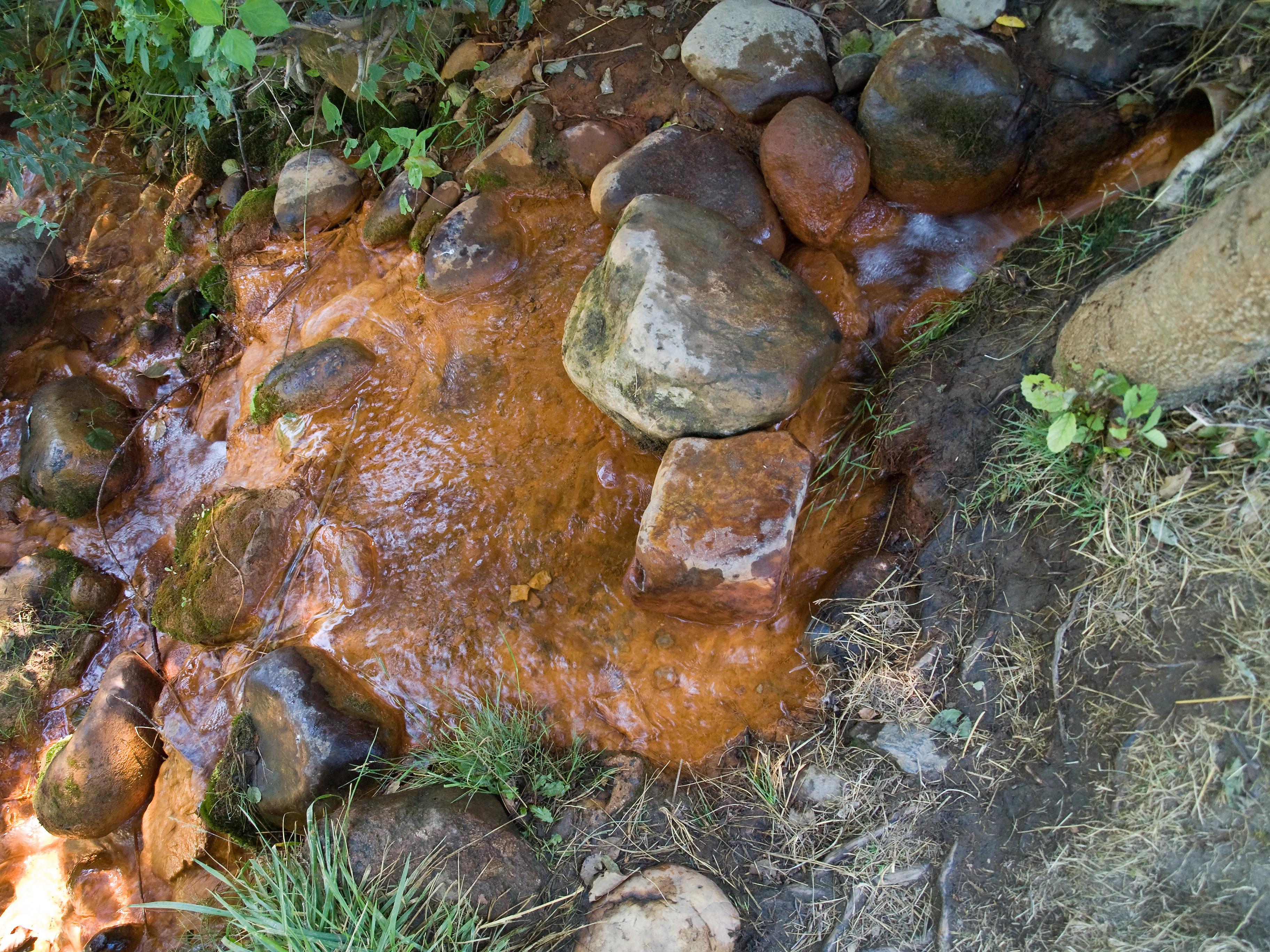 Spring of Quézac mineral water (Lozère, France). The reddish color is due to the presence of iron oxides in the water.